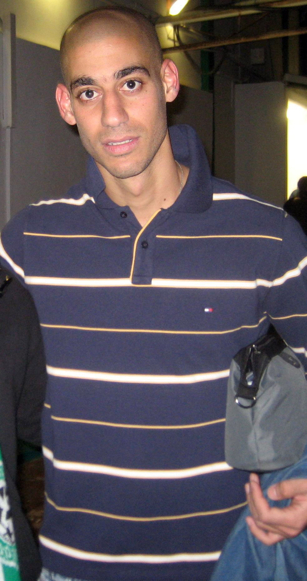 Israeli football player, Yaniv Katan.